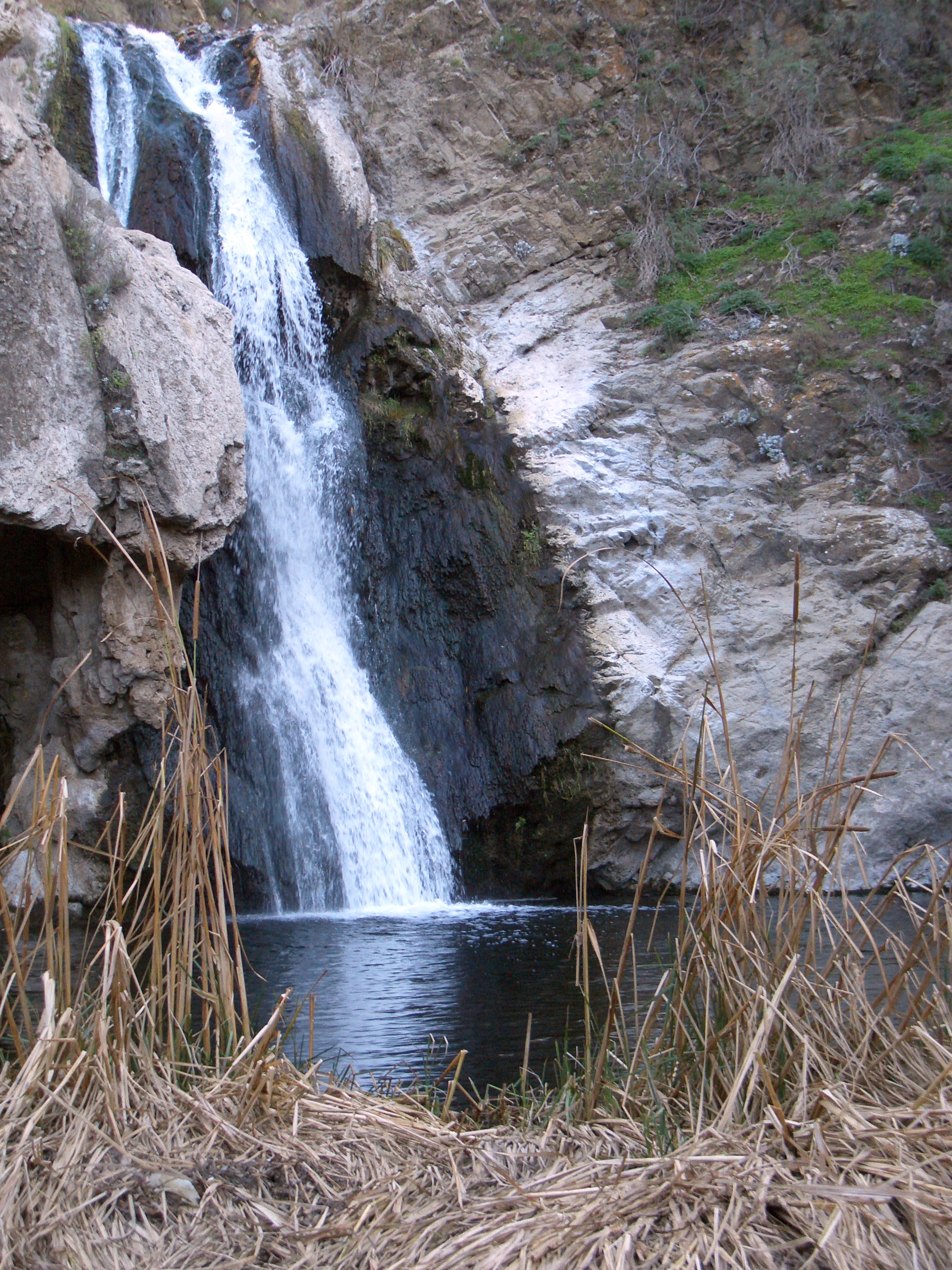 Paradise Falls, Wildwood Canyon (Santa Monica Mountains), Thousand Oaks, California